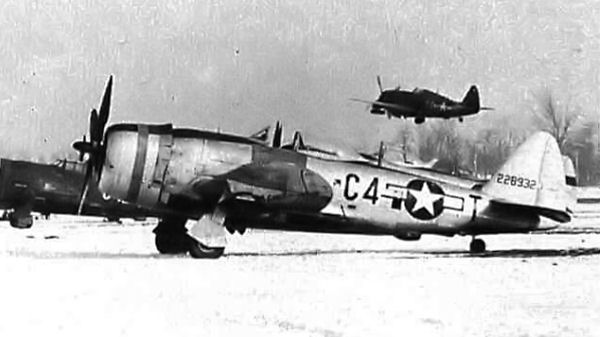 Republic P-47D-28-RA Thunderbolt, Serial 42-28932 of the 388th Fighter Squadron, 365th Fighter Group, at RAF Beaulieu, England.